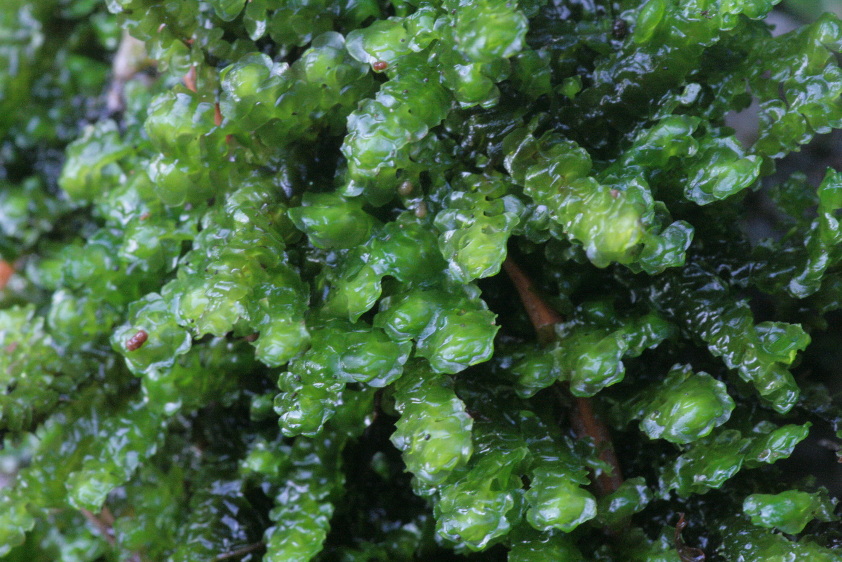 Scapania undulata